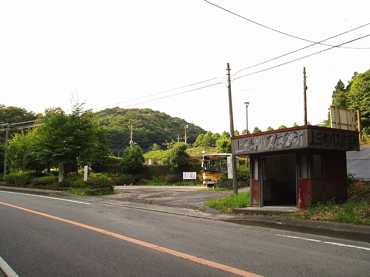 Kanagawa Chuo Kotsu A074 Mitsubishi KC-MP317M at Kamimimase in Aikawa Town,Kanagawa